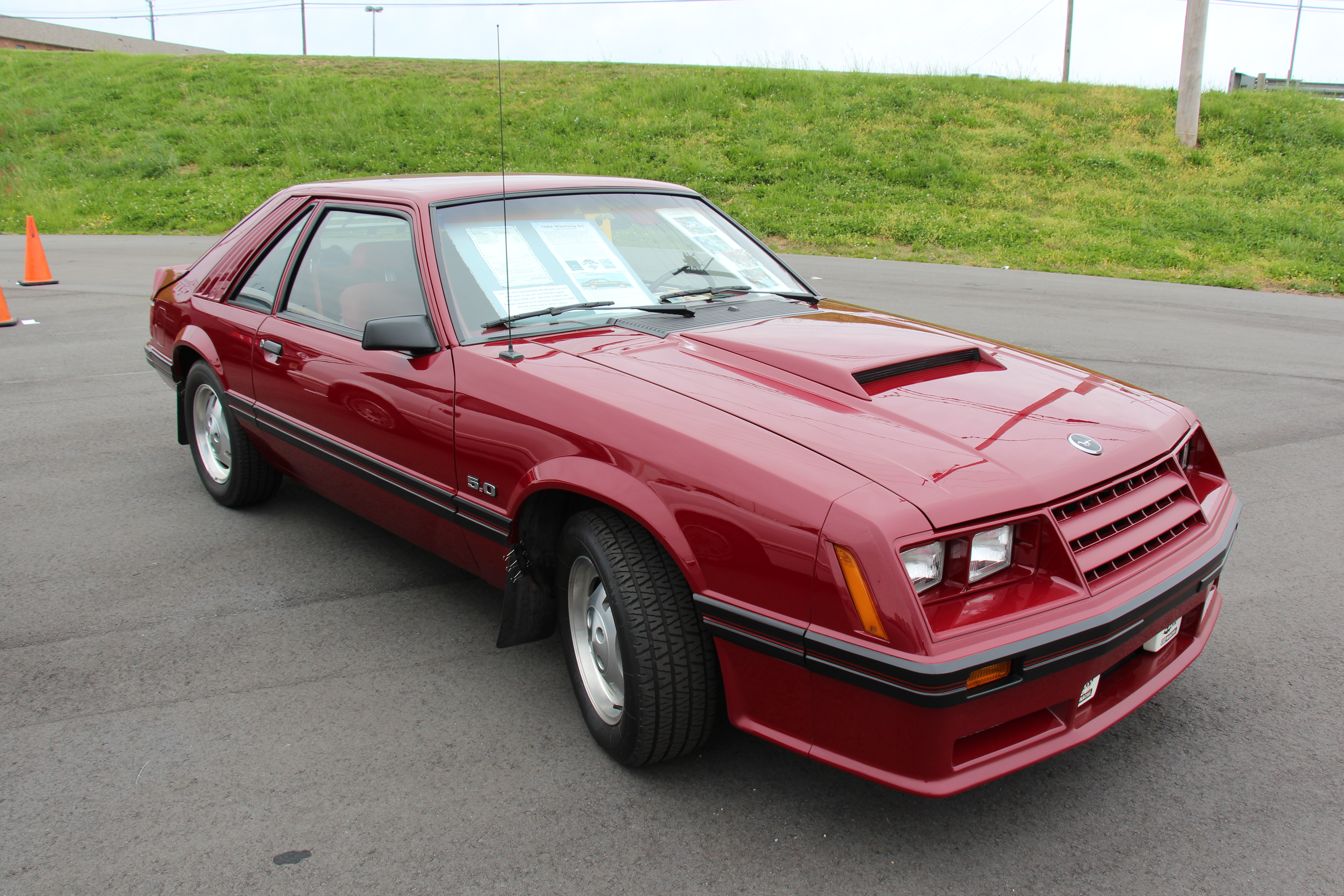 Dark Red. The 3rd generation Fox body Mustang was made from 1979-1993, a substantial update in 1987 saw the grille and quad headlights replaced by modern single headlights and the no grille aero look. It was available again in coupe or hatchback. In the beginning, in 1979 engines were the 2.3 litre 4 cyl Turbo, 2.8 V6 and 5.0 V8. In 1982 the Cobra was dropped, only models available were the GL, GLX and GT. Although the 5.0 V8 was dropped for 1980 and 81 in favour of the more economical 4.2, it returned for 1982 in the GT, in new HO form, with 157hp, it was this car that restarted the muscle car era. Photographed at the 50th Anniversary of the Mustang celebrations at the Charlotte Motor Speedway, April 2014